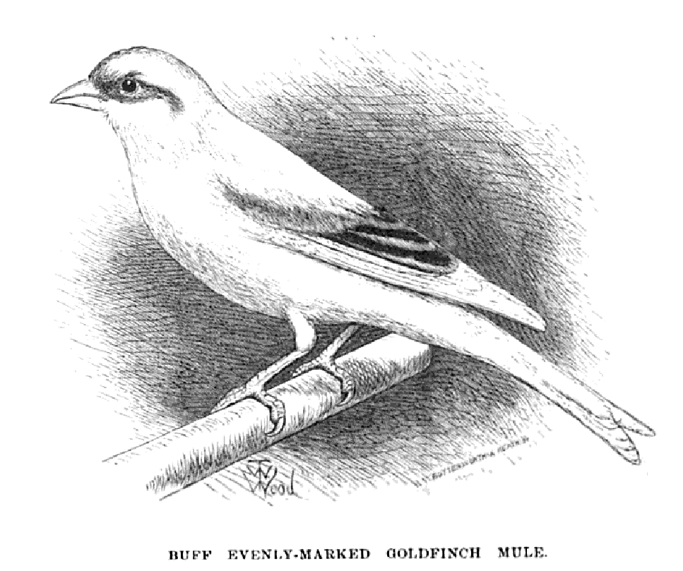 Glodenfinh mule